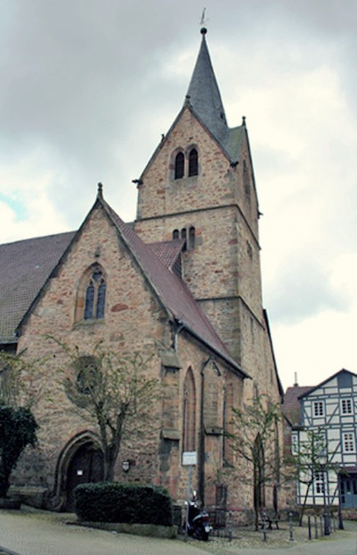 The City-Church in Spangenberg